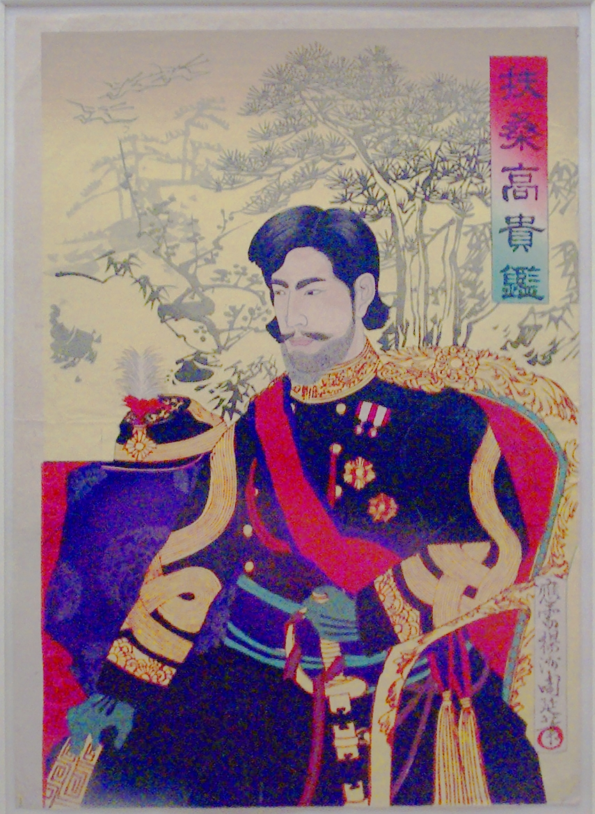 The Meiji Emperor (1887), woodblock print, by Toyohara Chikanobu (1838 - 1912). On display in the Japanese section of the British Museum.